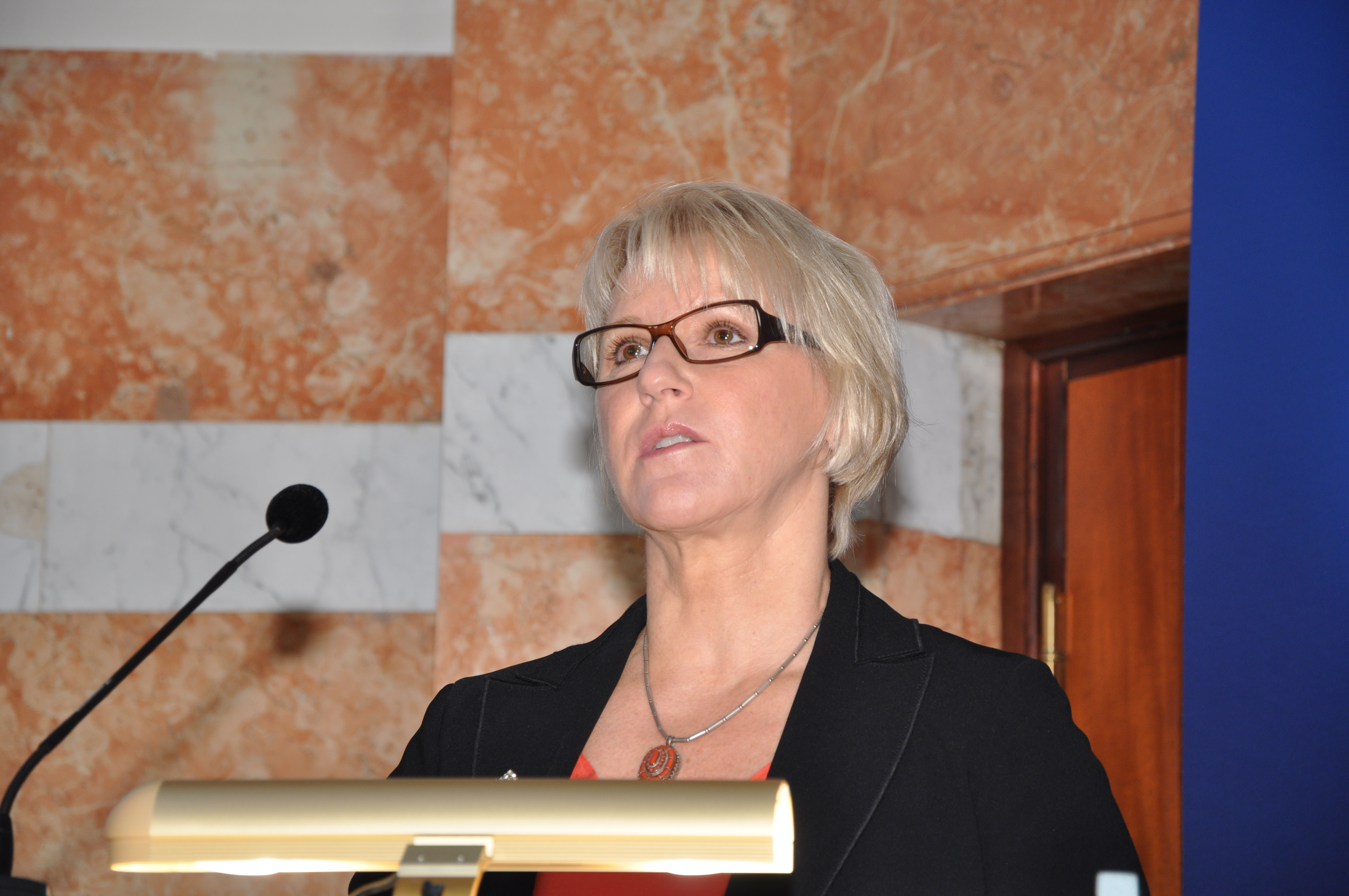 at a conference on legal transparency, Stockholm, Sweden